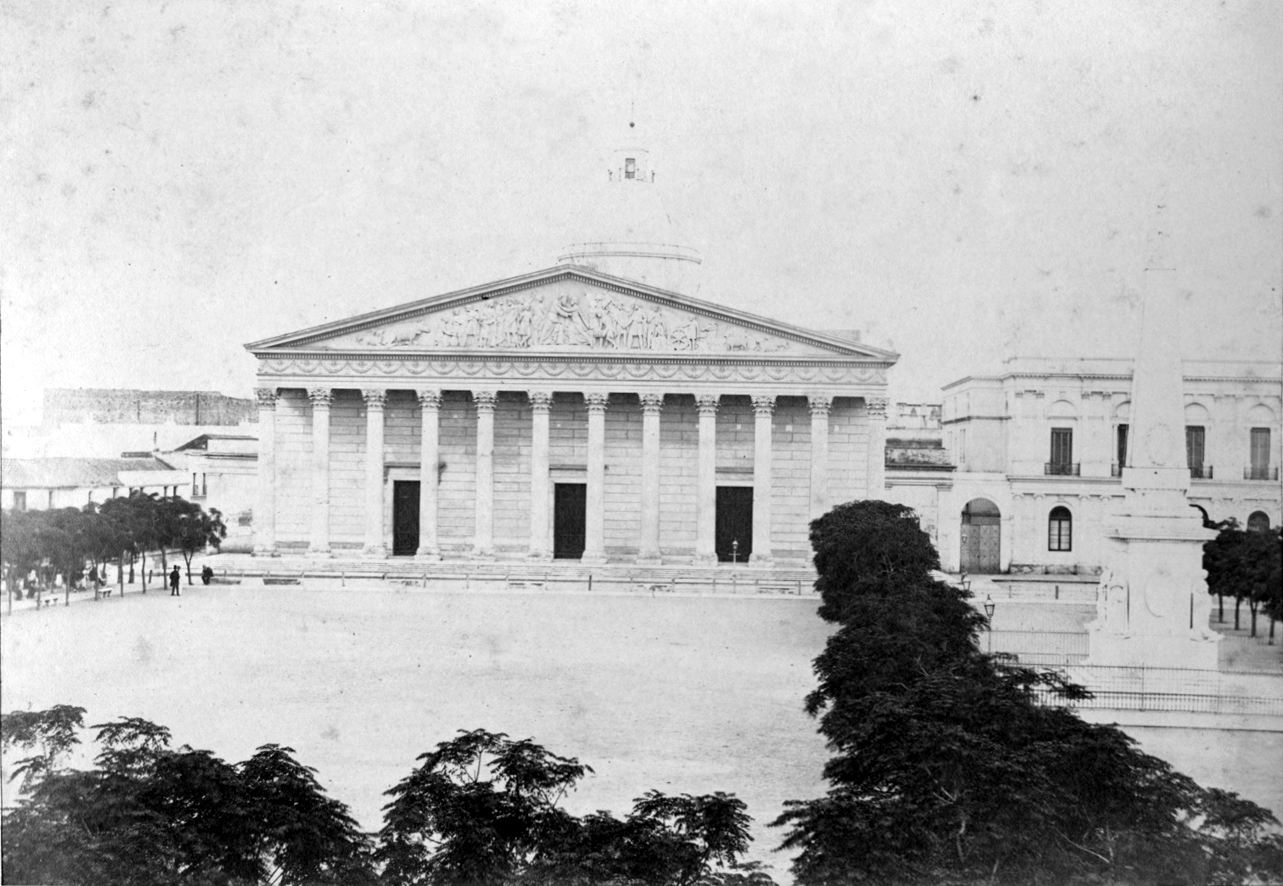 View of Plaza de la Victoria, Piramid of May and Cathedral of Buenos Aires. At right, the Archbishop building, that would be destroyed by fire in 1955.